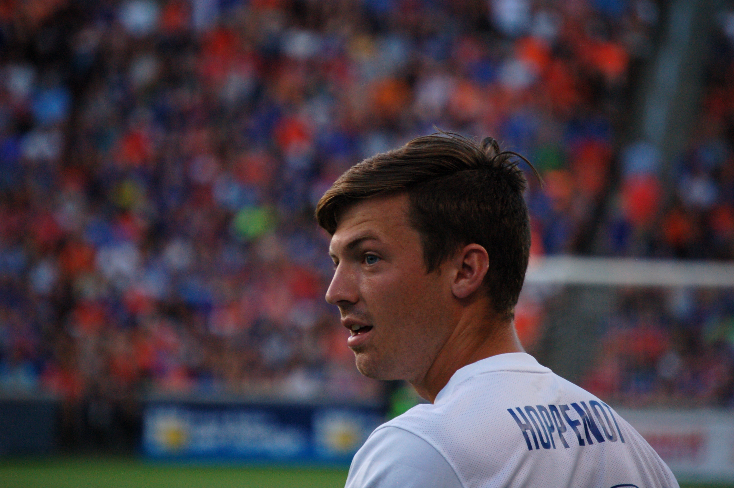 Antoine Hoppenot of FC Cincinnati standing on the sideline shortly before being substituted in. Taken during an exhibition match between FC Cincinnati and Crystal Palace F.C. at Nippert Stadium in Cincinnati on July 16, 2016.